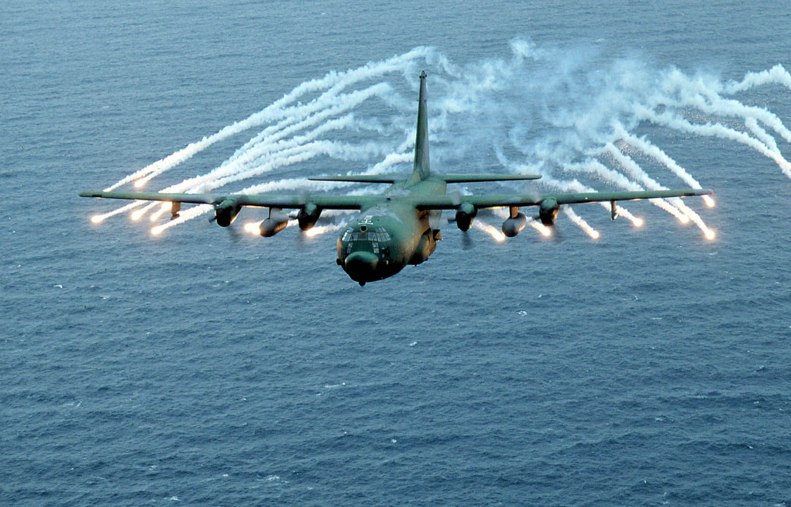 MC-130 Combat Talon in flight over the ocean, firing flares